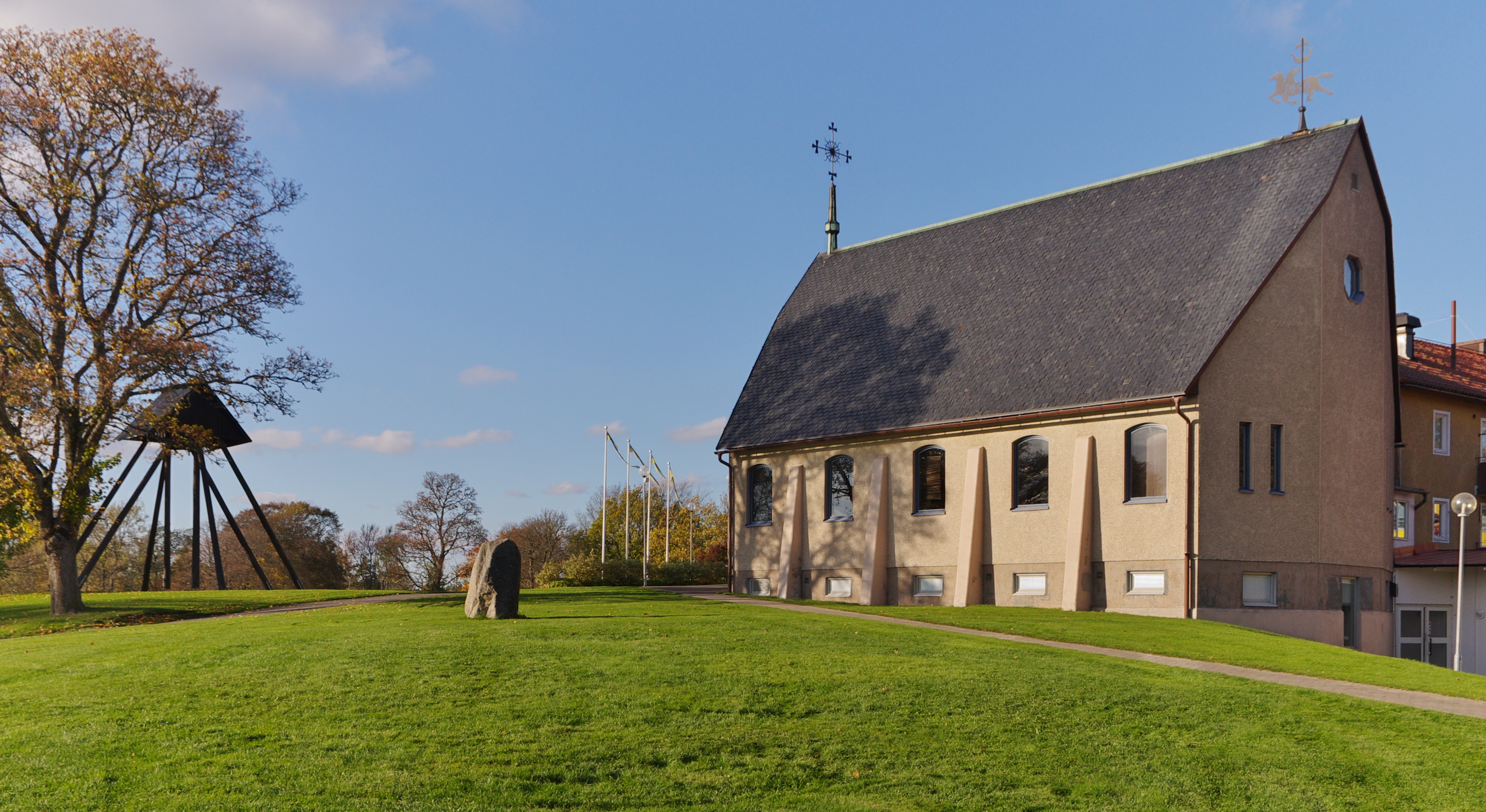 Flämslätts kyrka (english:Flämslätt church) in Västergötland and Skara municipality in Västragötaland county, Sweden.